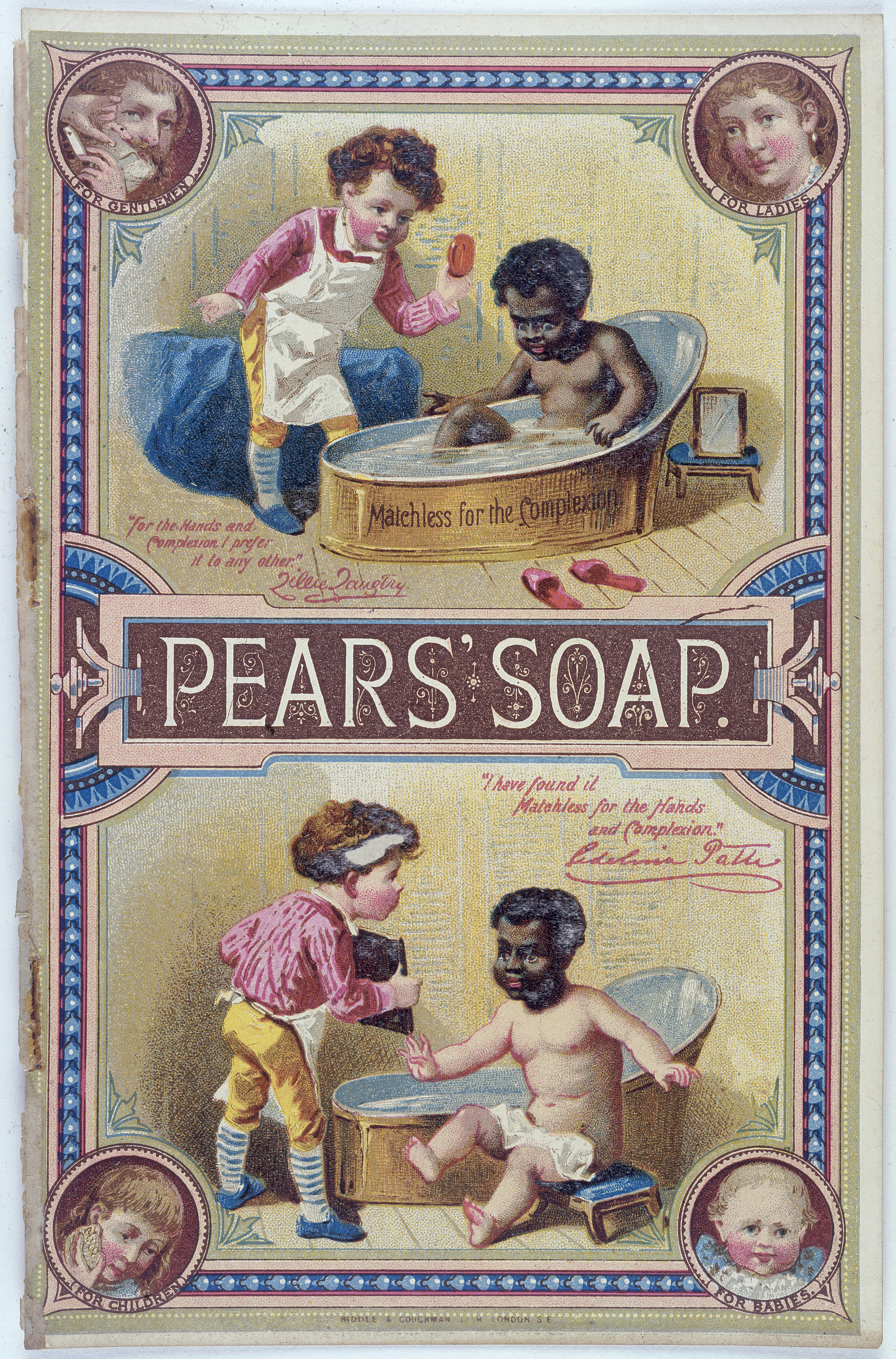 Ephemera Collection. Advertisement for Pears' Soap Caption reads, "Matchless for the complexion..." Illustration of 'before and after' use of soap by black child in the bath. Showing soap washes off his dark complexion. General Collections Keywords: 19th century?; gc; Skin Care; Ephemera; Pears' Soap.